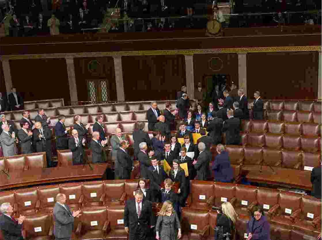 Joint session of the United States Congress, Electoral Count, January 6, 2017: procession of the Senate pages through the aisle of the House of Representatives, the first two pages carrying the mahogany boxes withe the votes of the Electoral College.